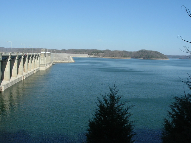 Picture of Lake Cumberland. Taken by uploader, all rights released